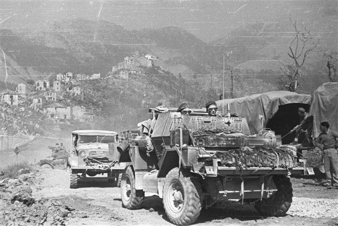 Daimler Dingo of the New Zealand Divisional Cavalry, in the Atina Belmonte area, Italy, during World War 2. 4161-08